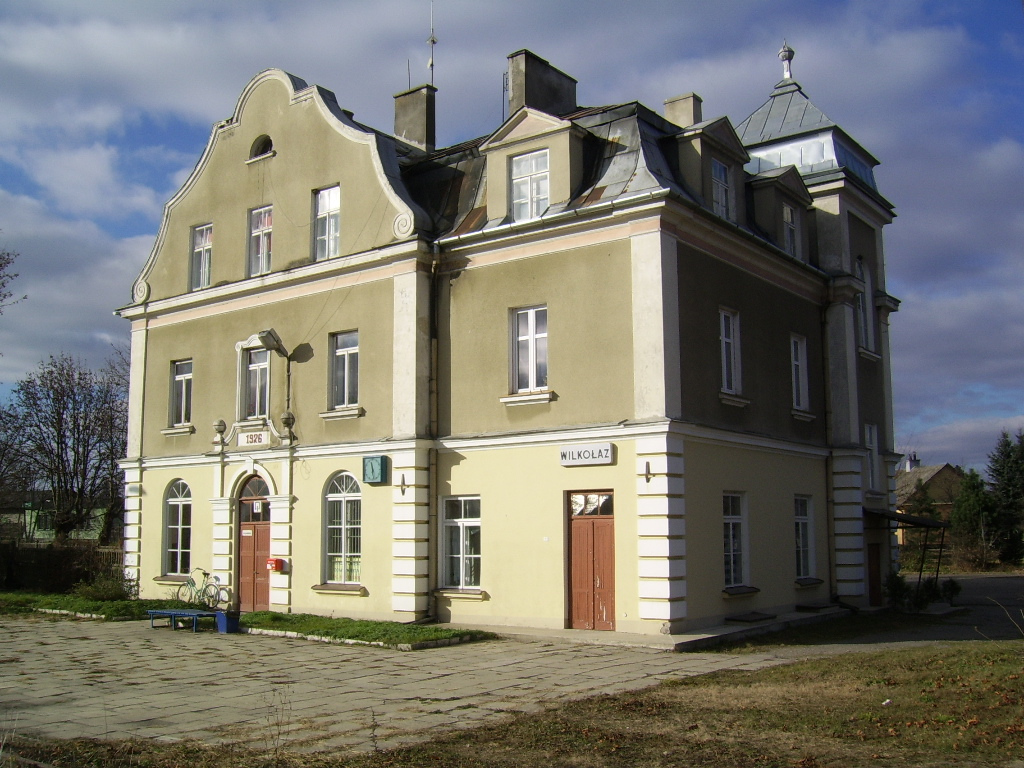 Railway station Wilkołaz 2